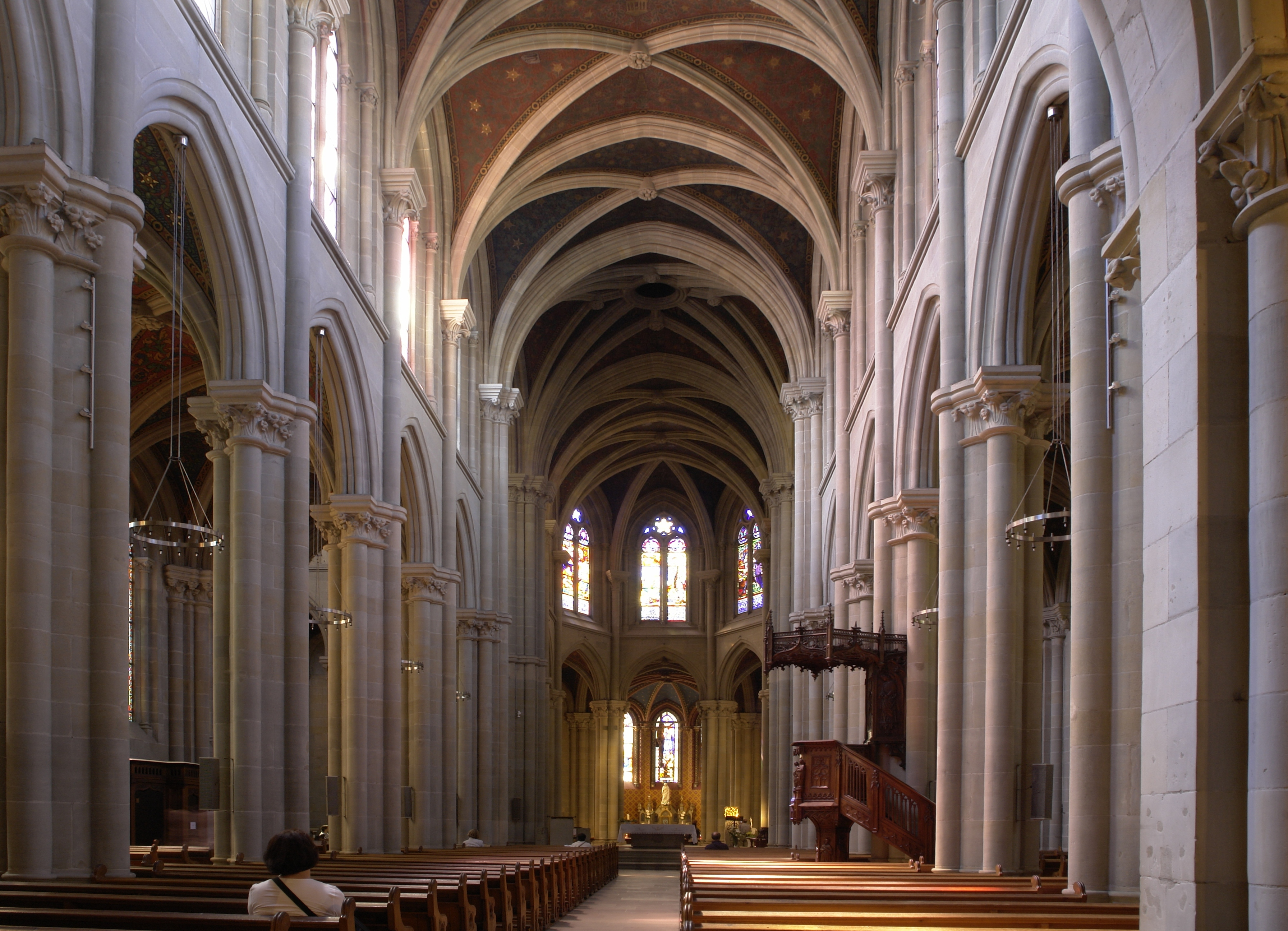 Interior of Notre-Dame basilica in Geneva, Switzerland.